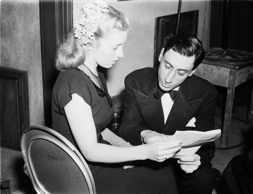 Soprano Pierrette Alarie talking behind the scenes with the presenter Roger Baulu at a symphony concert sponsored by Dow company and broadcast by radio station Radio-Canada in Montreal.